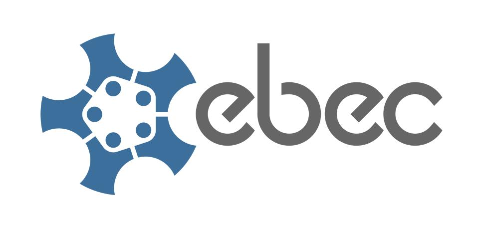 European BEST Engineering Competitions